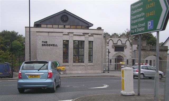 The Bridewell, Magherafelt In past centuries The Bridewell in Magherafelt was where local citizens were locked up for their misdemeanors, unable to communicate with the outside world. In stark contrast, the doors of today's Bridewell building are well and truly open, the bank of computers inside allowing people to communicate with others world-wide. Formerly the Court House and jail, The Bridewell now contains Magherafelt's new Library, which was officially opened on 19th June 2002 by Culture, Arts and Leisure Minister Michael McGimpsey.